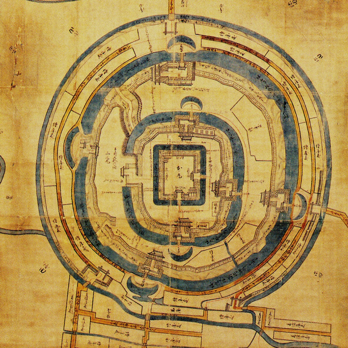 Layout Tanaka castle